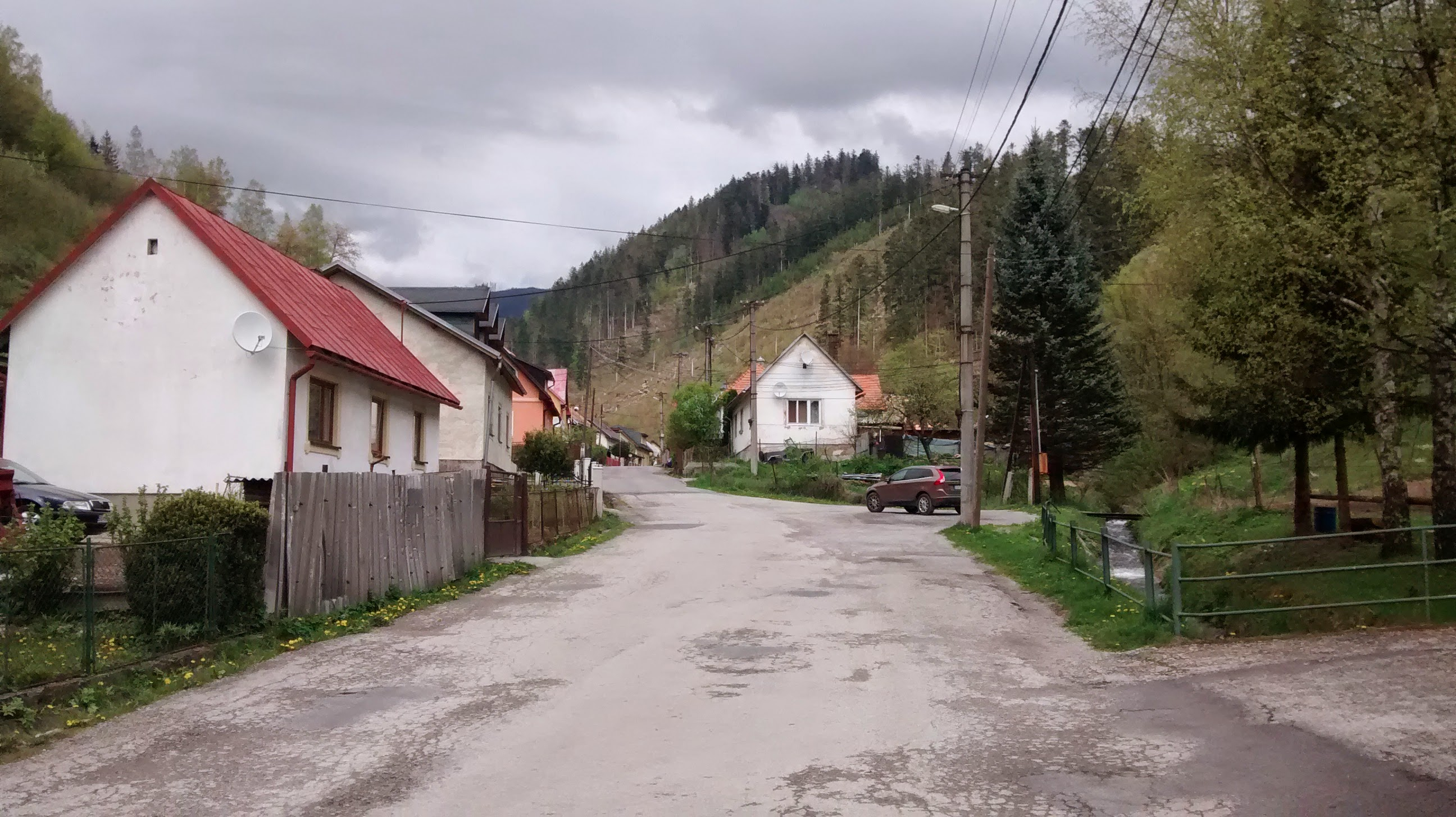 Podhronsky Bukovec